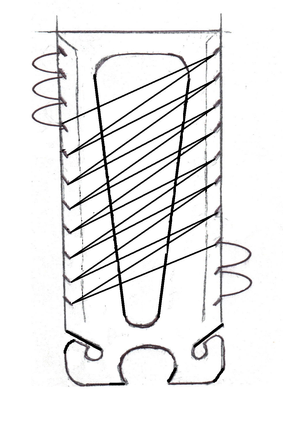 A layout diagram of the spatial order of tones on the gravi-kora bridge. This is a traditional African kora tuning.